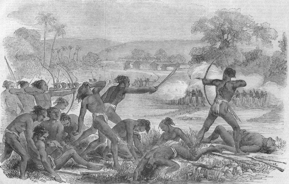 "Attack by 600 Santhals upon a party of 50 sepoys, 40th regiment native infantry," Illustrated London News, 1856